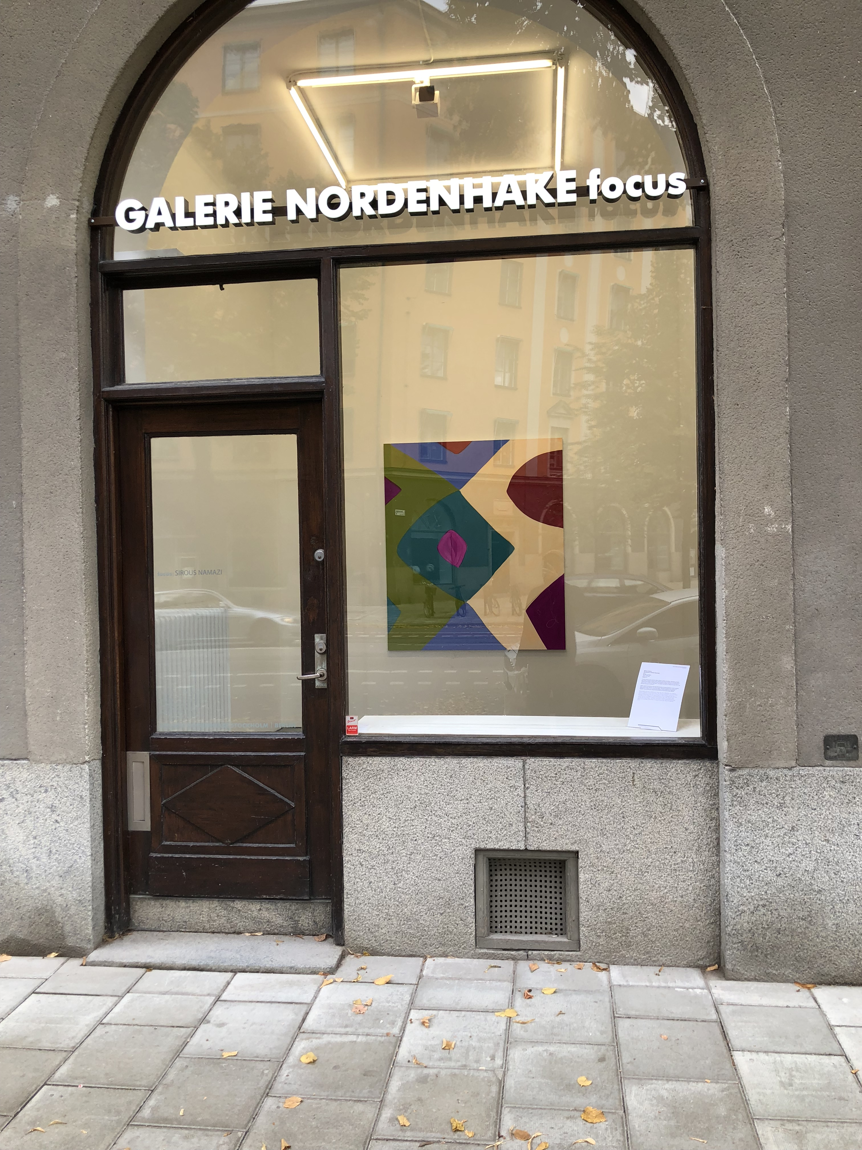 Galerie Nordenhake Focus, Karlavägen 20, Stockholm, Sweden, 2018